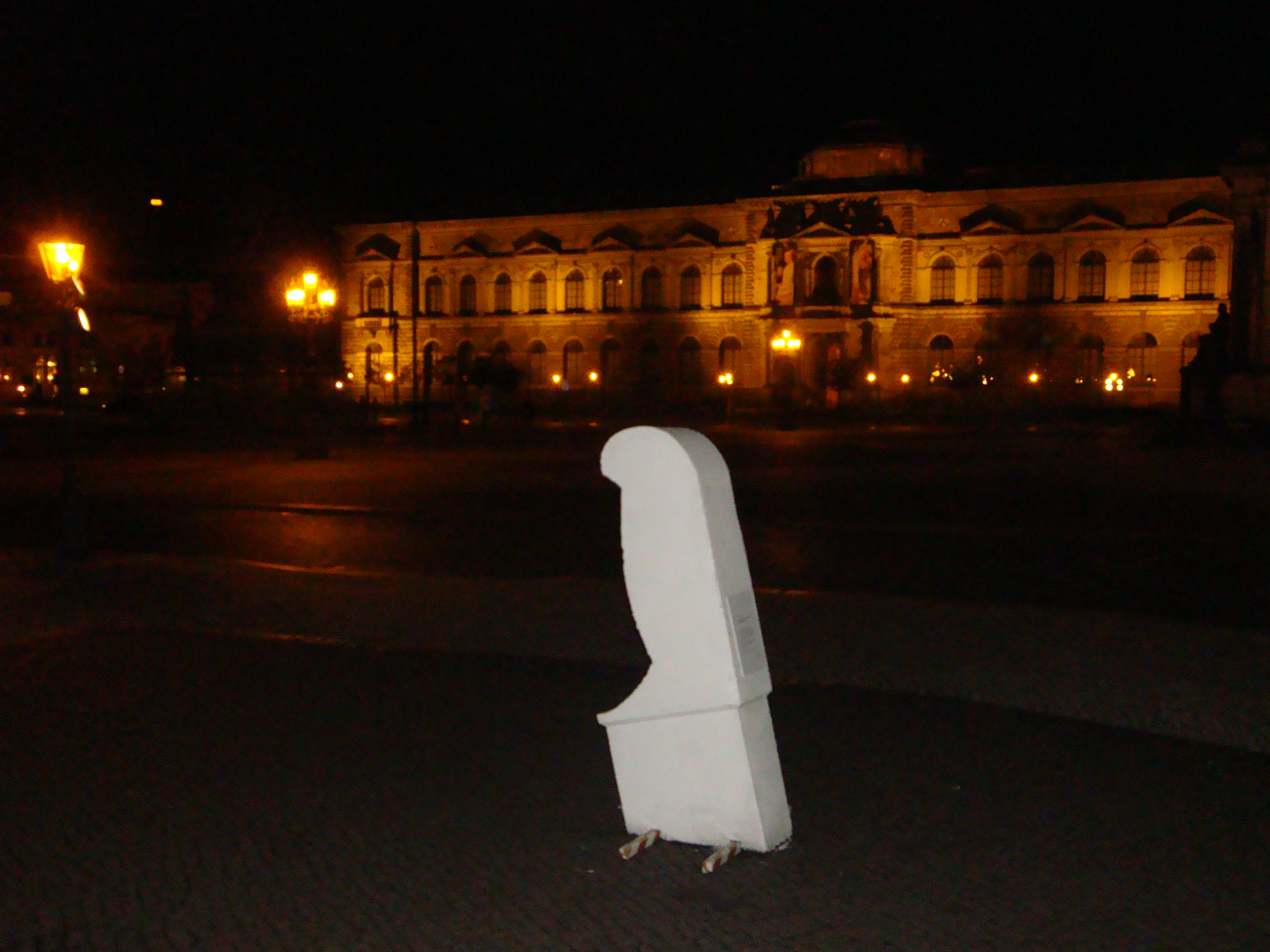 Marwa El Sherbini memorial “18 knife stabs” in front of the Semperoper in Dresden